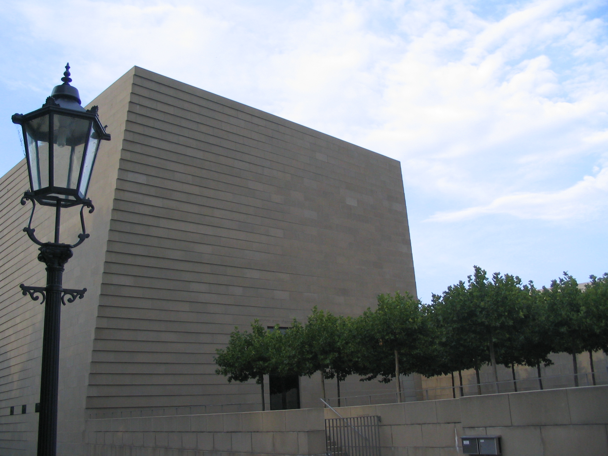 Synagoge in Dresden seen from the street own photograph 2005.08.12